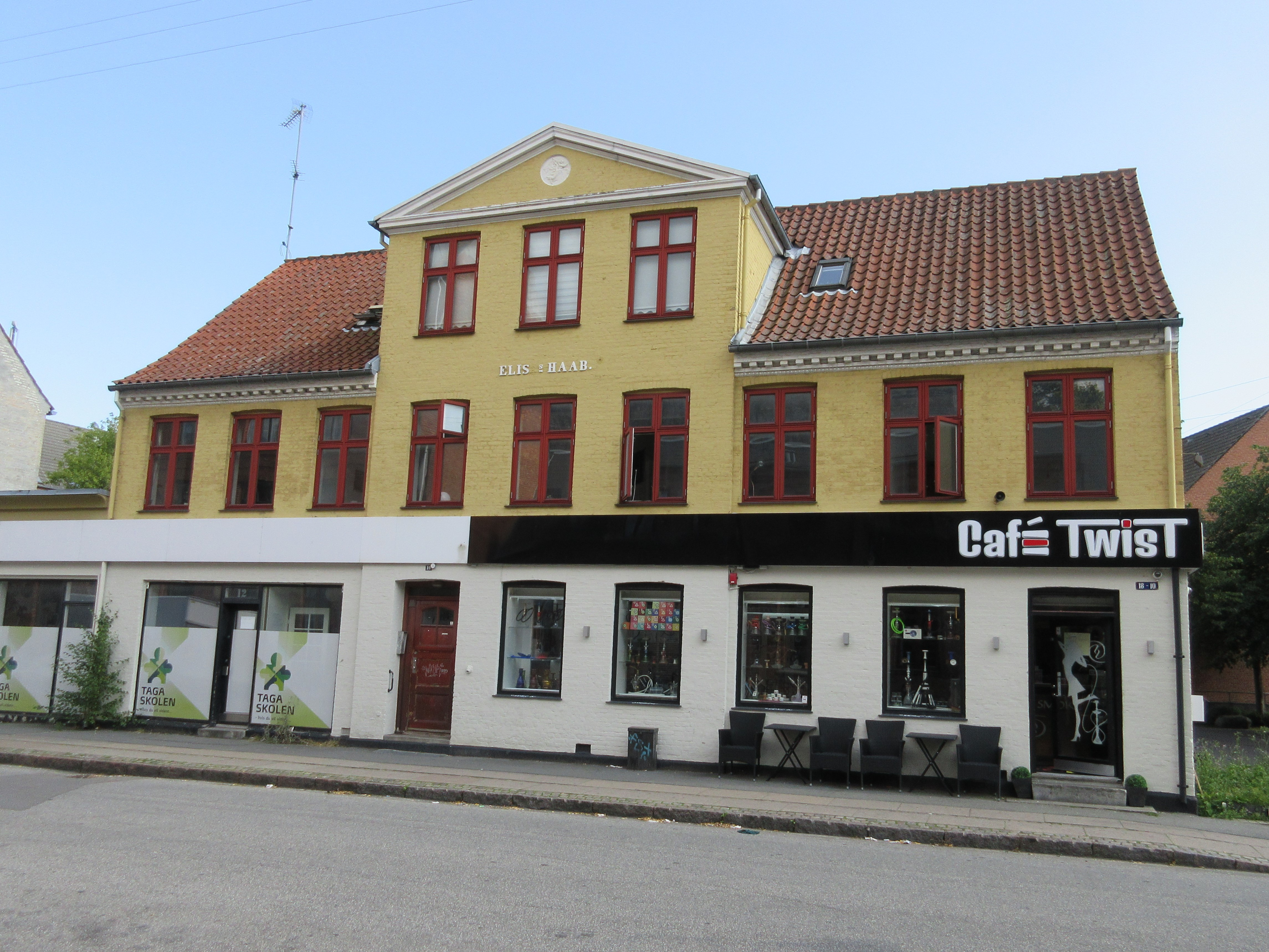 The building Elises Haab at Frankrigsgade 10 in Copenhagen, Denmark